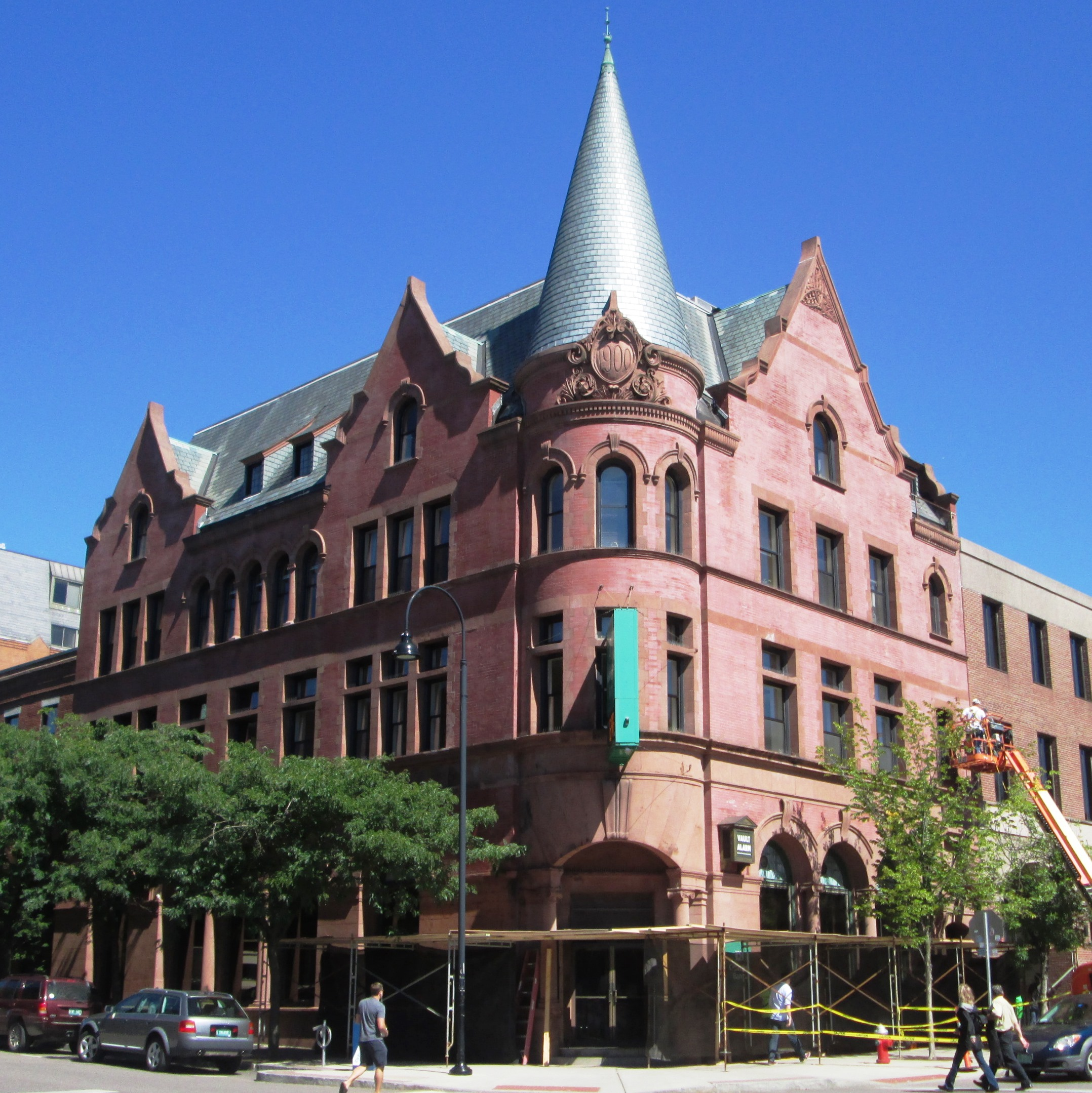 The Burlington Savings Bank Building at 148 College Street on the corner of St. Paul Street in Burlington, Vermont, was built in 1900 in the Flemish Revival style. It is part of the City Hall Park Historic District. (Source:[1])